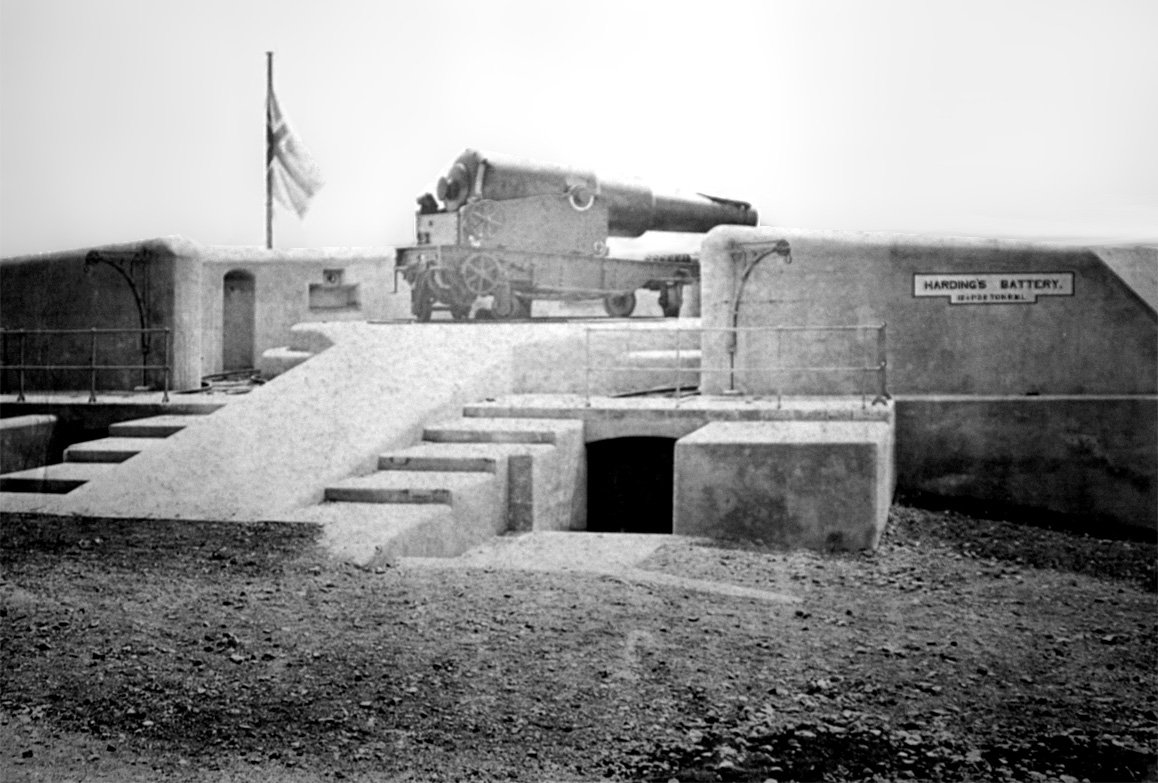 Harding Battery Gibraltar with 12.5 inch RML as mounted circa 1878